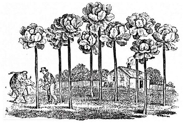 Jersey kale in the Channel Isles, depicted in "The Farmers Magazine", in 1836